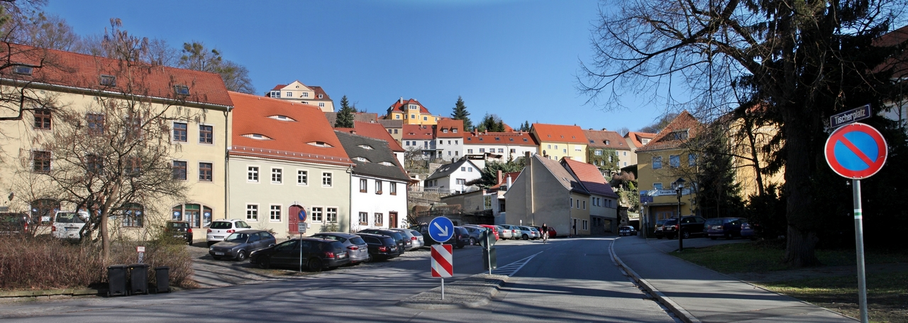 Pirna: view over the Tischerplatz with the Hausberg in the background.